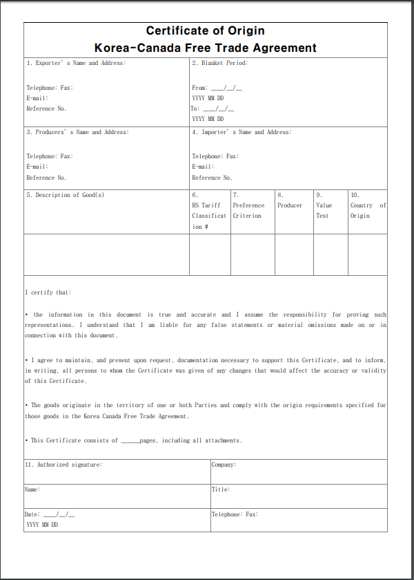 Sample of a form of preferential CO